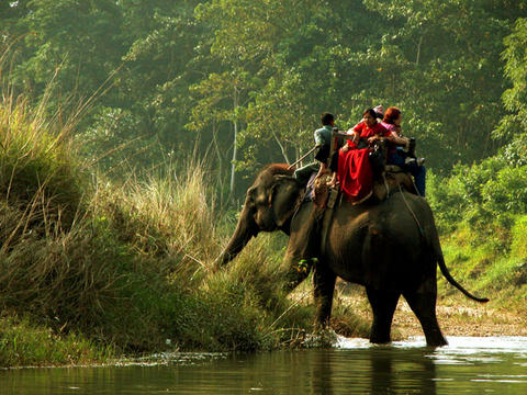 © Leonardo C. Fleck